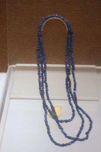 A Chinese blue-glass-bead neckle from the Eastern Han period (25–220 CE).